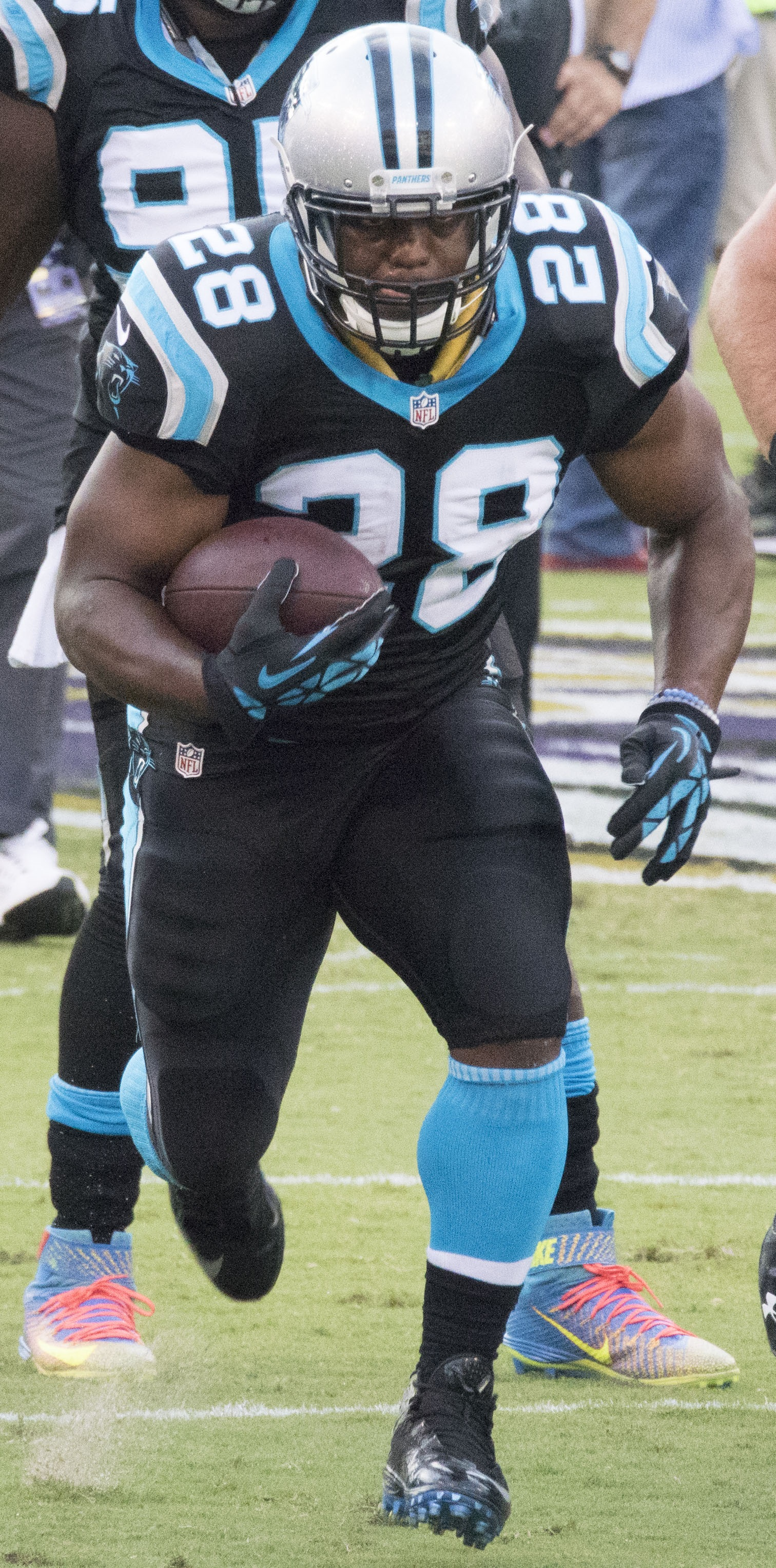 Panthers at Ravens 8/11/16